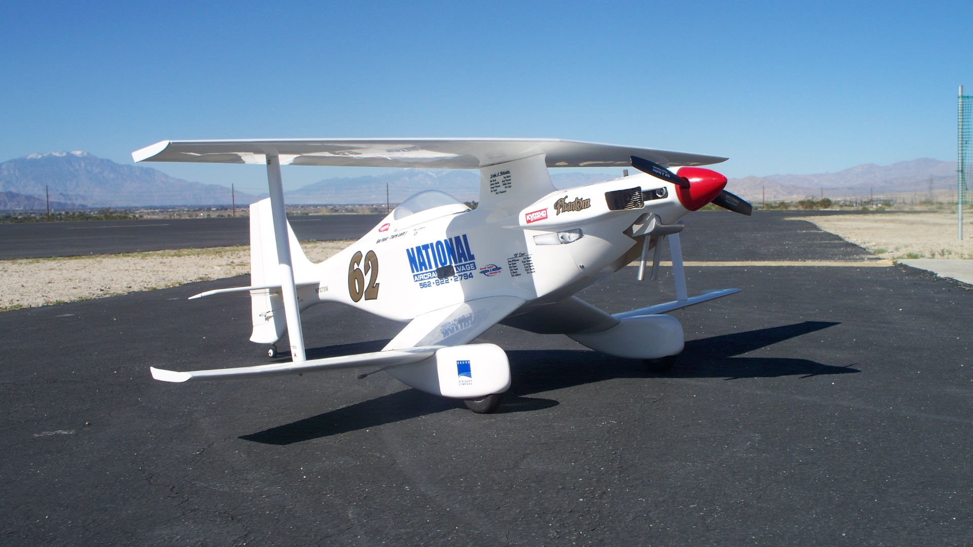 Kyosho Phantom 70 biplane with an O.S. 46FX engine and Bisson "Pitts" muffler photographed, owned and flown by user SayCheese!